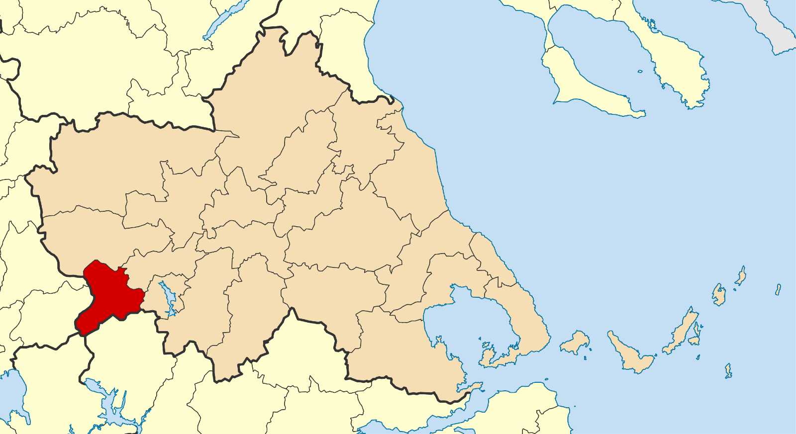 Locator map for Argithea municipality in Greek region Thessaly (2011)